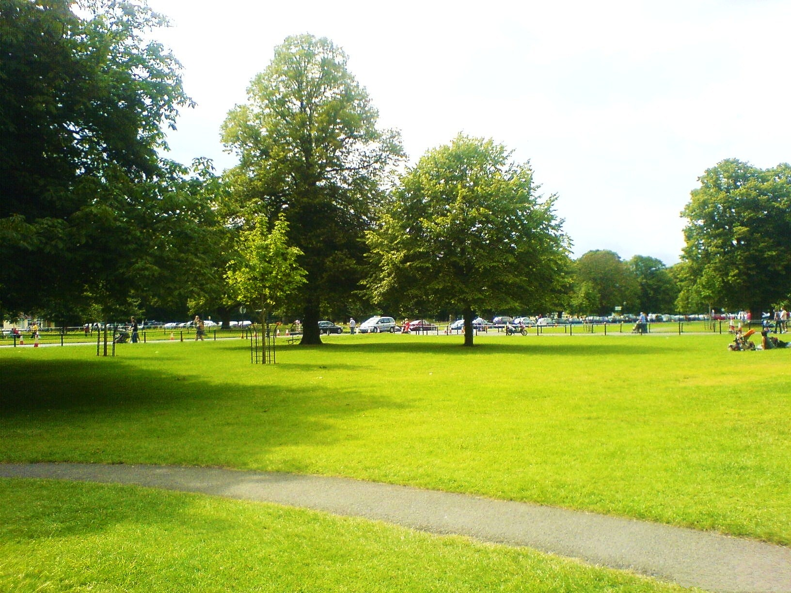 Phoenix Park in Summer.